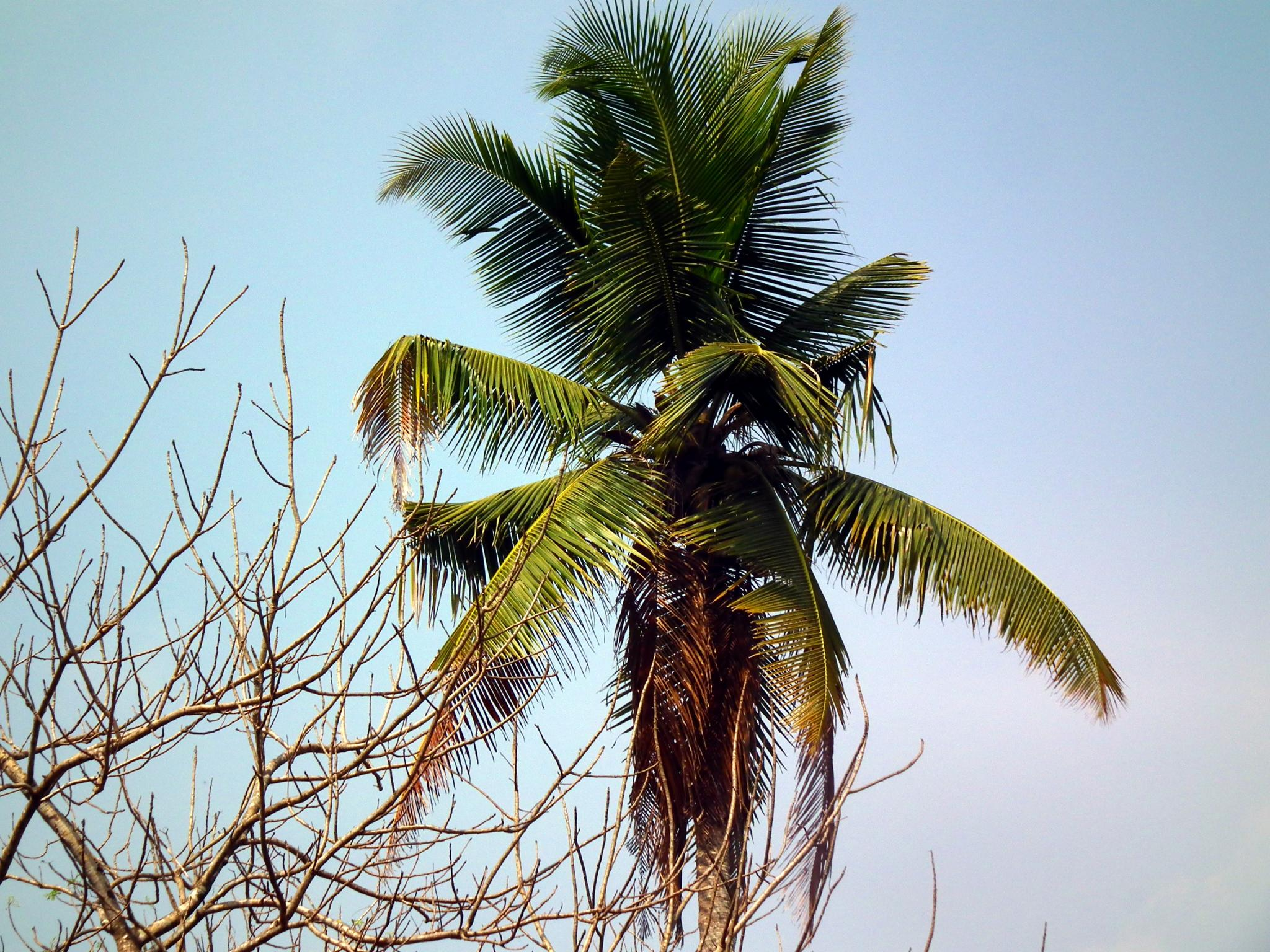 Traditional areas of coconut cultivation in India are the states of Kerala, Tamil Nadu, Karnataka, Goa, Andhra Pradesh, Orissa, West Bengal, Pondicherry, Maharashtra and the islands of Lakshadweep and Andaman and Nicobar. Four southern states put together account for almost 92% of the total production in the country: Kerala (45.22%), Tamil Nadu (26.56%), Karnataka (10.85%), and Andhra Pradesh (8.93%).[31] Other states like Goa, Maharashtra, Orissa, West Bengal, and those in the northeast like Tripura and Assam account for the remaining 8.44%. Kerala, which has the largest number of coconut trees, is famous for its coconut-based products like coconut water, copra, coconut oil, coconut cake (also called coconut meal, copra cake, or copra meal), coconut toddy, coconut shell-based products, coconut wood-based products, coconut leaves, and coir pith.